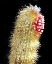 Plant from type habitat, Bahia, Brasil